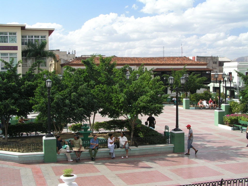 Museo de Arte Colonial (House of Don Diego Velasquez) and Parque Céspedes — in central Santiago de Cuba.